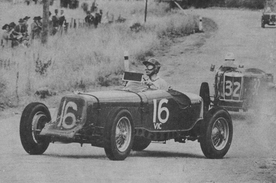 The Ballot Oldsmobile driven by Jim Gullan contesting the 1948 South Australian 100 at the Lobethal Circuit. Gullan won the race.